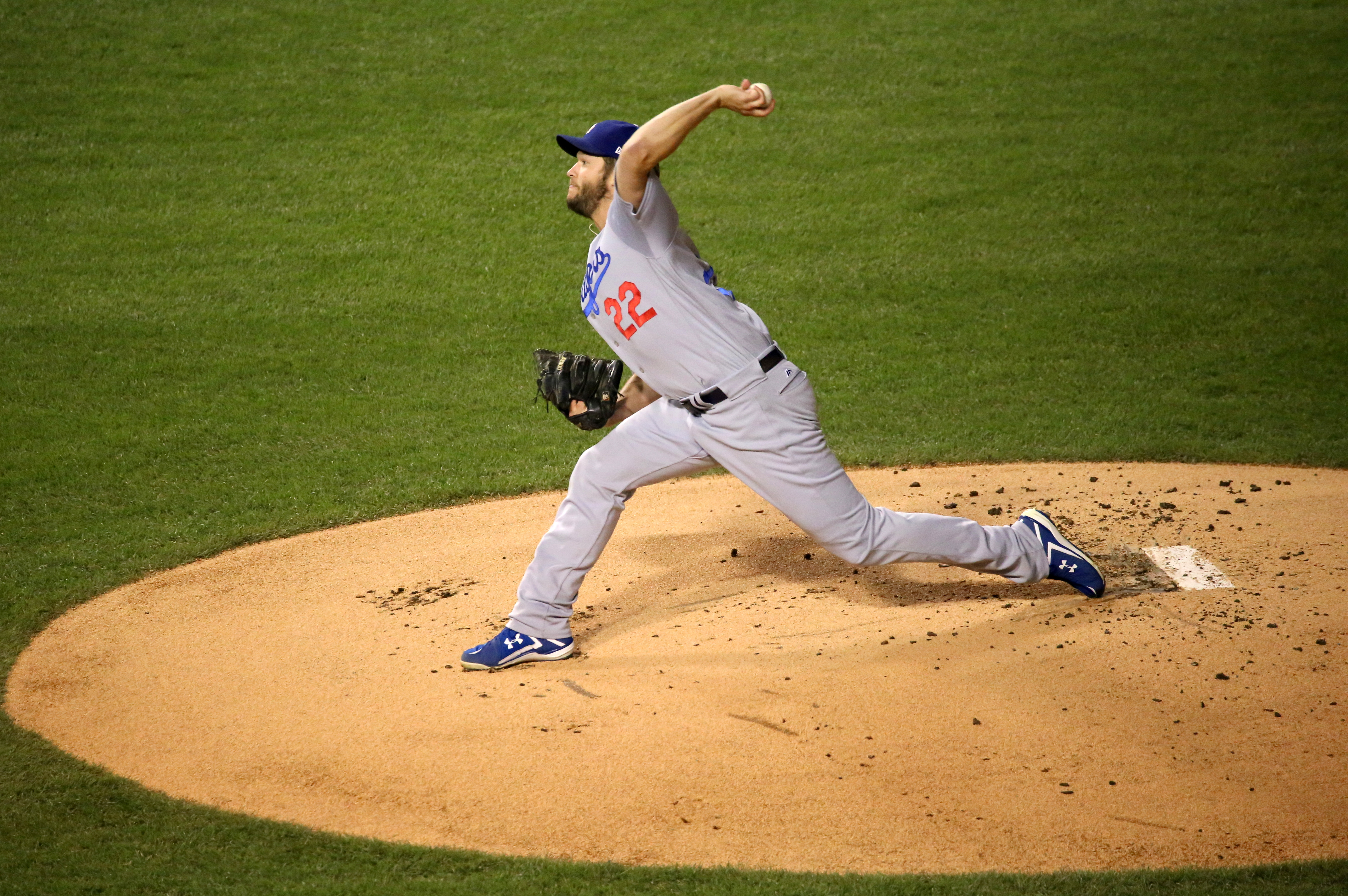 Dodgers starter Clayton Kershaw delivers a pitch during NLCS Game 6.